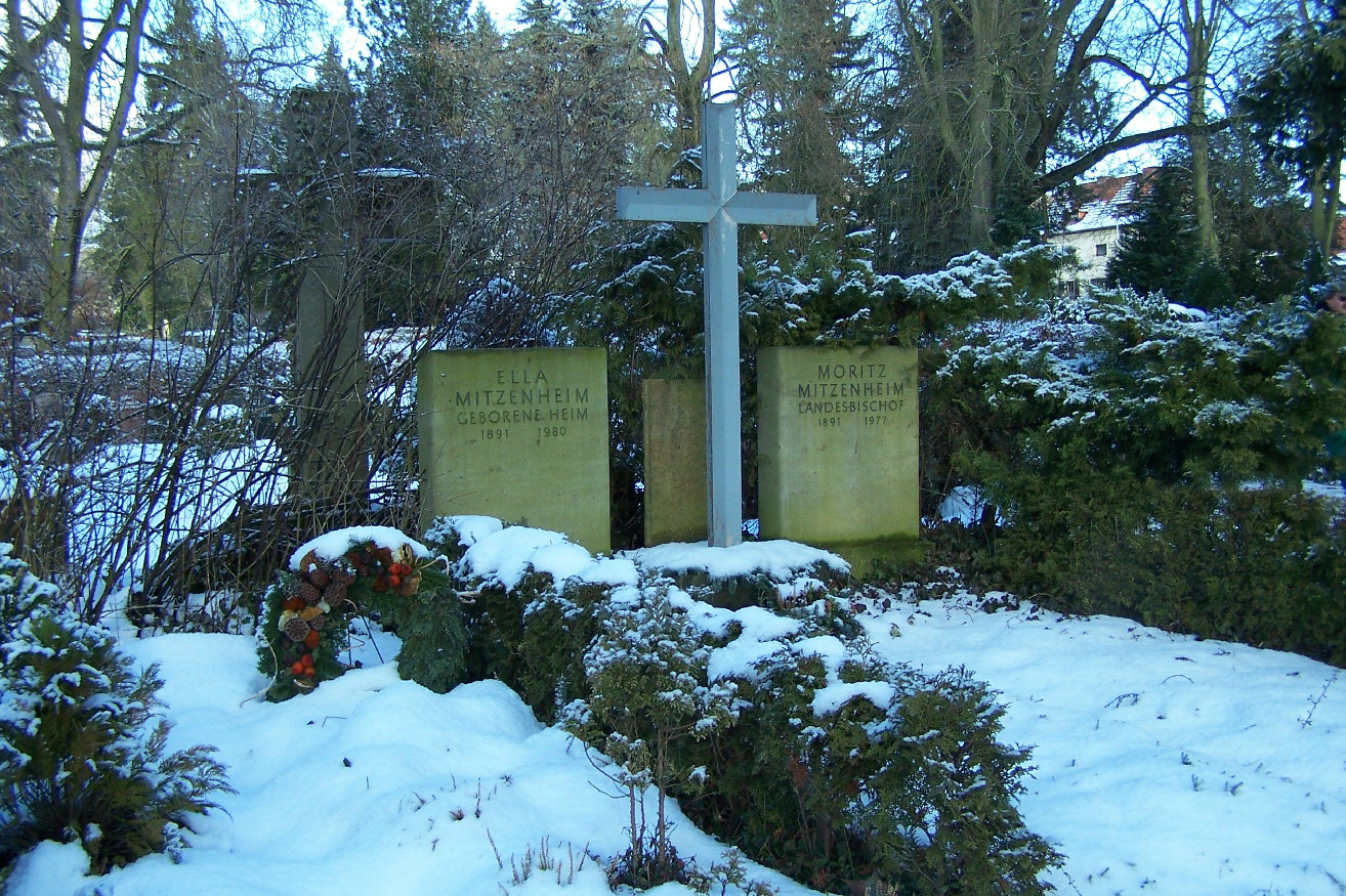 The honrary grave of bishob Moritz Mitzenheim in Eisenach cemetery.